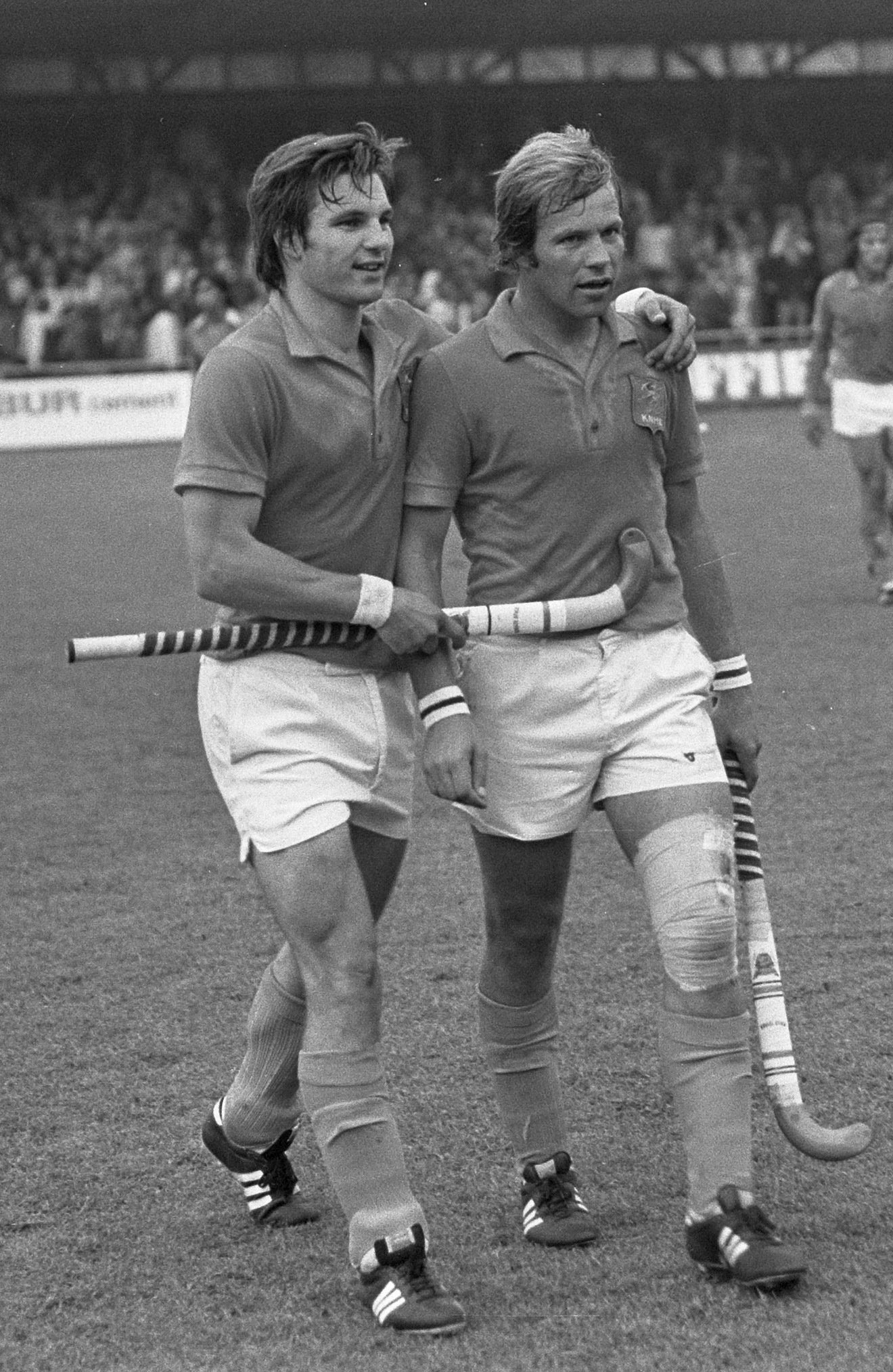 Ties Kruize and Frans Spits after the World Cup match against Malaysia 4-0